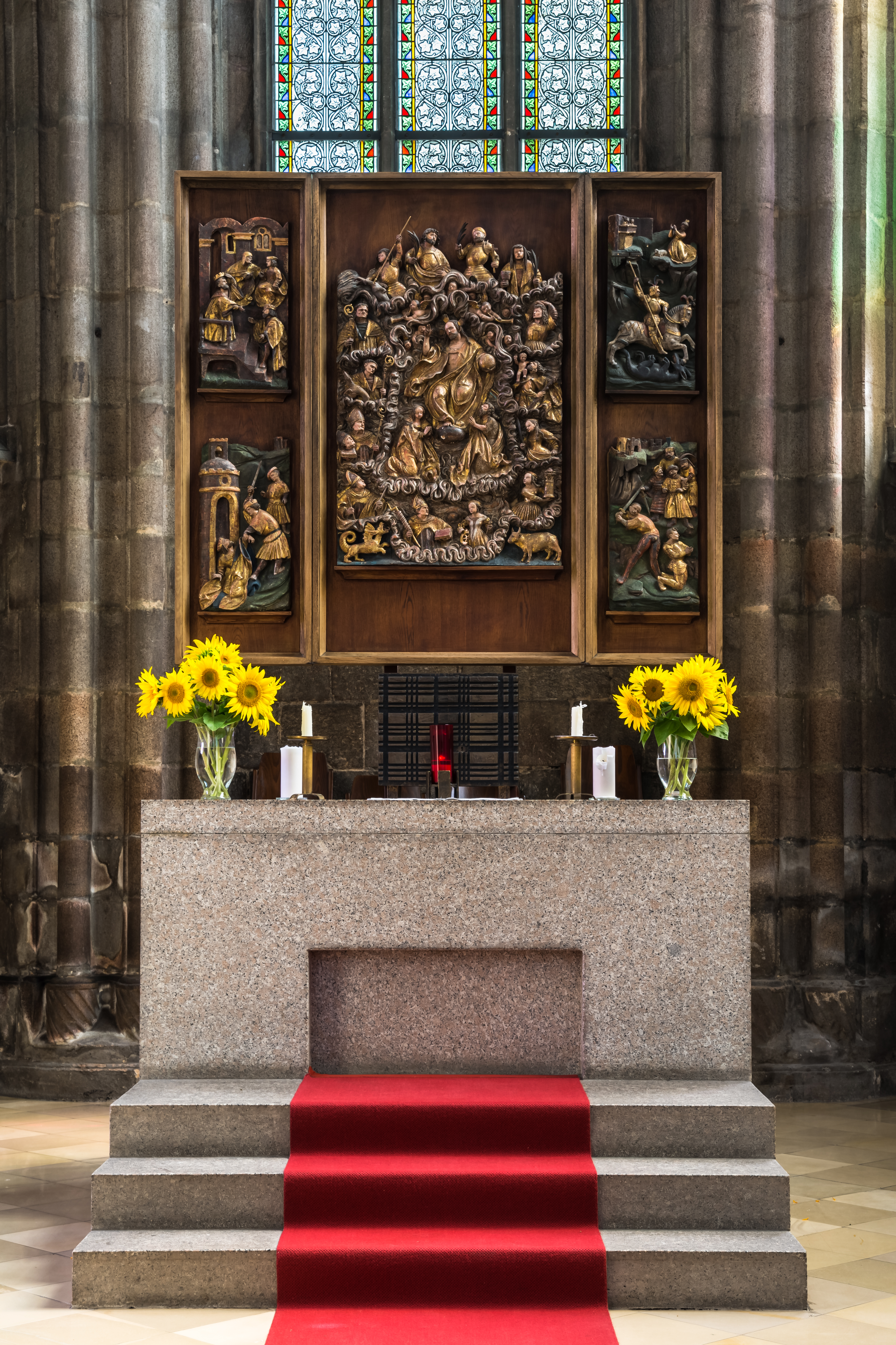 High altar (Altar of the Holy Helpers) at the parish church Freistadt, Upper Austria. Anonymous master of the Danube School (Lienhard Krapfenbacher?), around 1520.